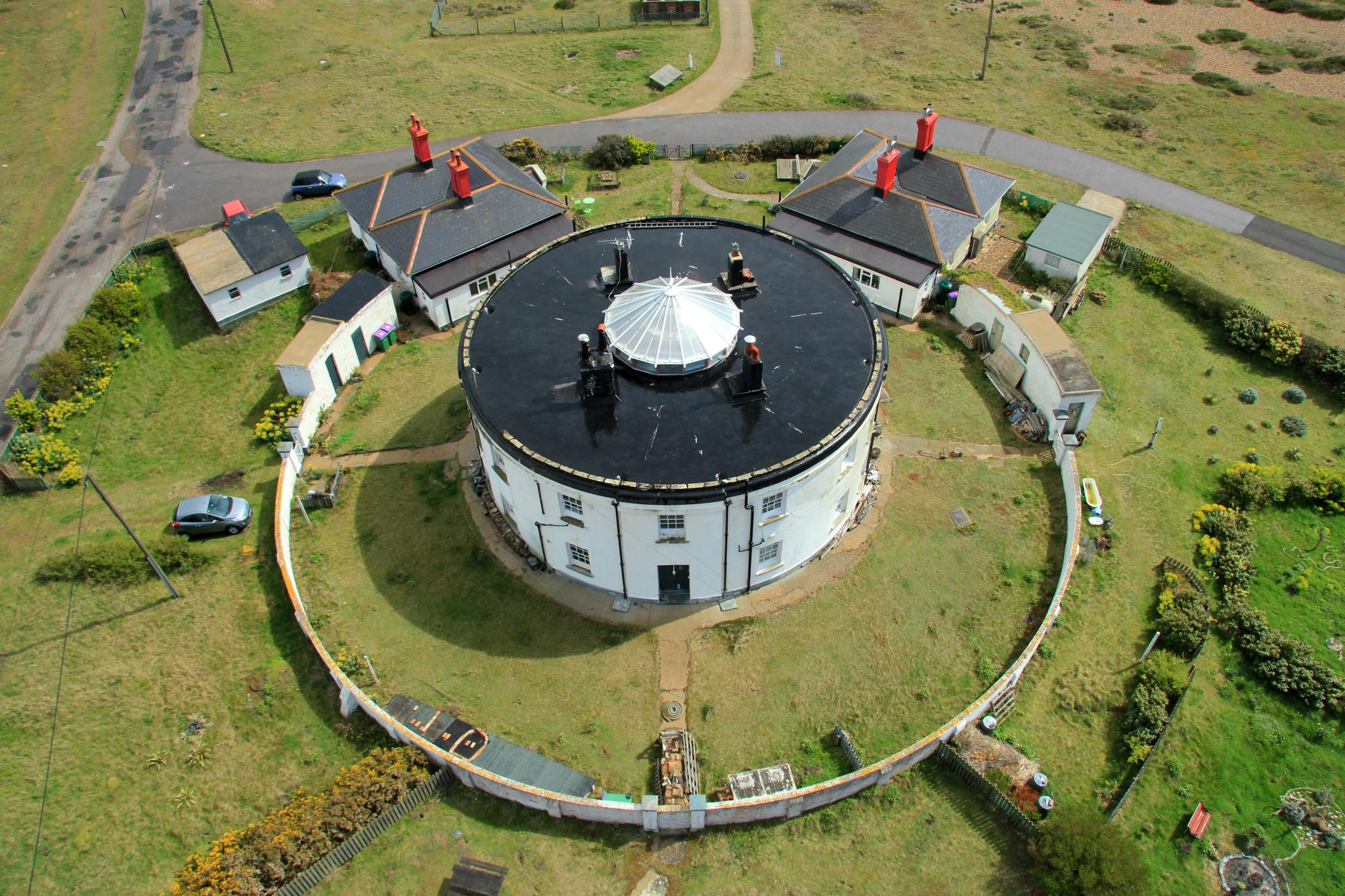 Dungeness is a headland on the coast of Kent, England, formed largely of a shingle beach in the form of a cuspate foreland. It shelters a large area of low-lying land, Romney Marsh. Dungeness is also the name given to a “village” situated along the beach, and to an important ecological site on the same location. It is one of the largest expanses of shingle in the world. It is of international conservation importance for its geomorphology, plant and invertebrate communities and birdlife. Dungeness is not truly a village, more a scattered collection of dwellings. Some of the homes, small wooden houses in the main, many built around old railway coaches, are owned and lived in by fishermen, whose boats lie on the beach; some are occupied by people trying to escape the pressured outside world. The shack-like properties have a high value on the property market. Perhaps the most famous house is Prospect Cottage, formerly owned by the late artist and film director Derek Jarman. The cottage itself is painted black, with a poem, part of John Donne's “The Sunne Rising”, written on one side in black lettering. The garden however is the main attraction. Reflecting the bleak, windswept landscape of the peninsula, Derek Jarman's garden is made of pebbles, driftwood, scrap metal and a few hardy plants. There is a remarkable and unique variety of wildlife living at Dungeness, with over 600 different types of plant (a third of all those found in Britain). It is one of the best places in Britain to find insects such as moths, bees and beetles, and spiders; many of these are very rare, some found nowhere else in Britain. The short-haired bumblebee, declared extinct in the UK nearly a decade ago, but which has survived in New Zealand after being shipped there more than 100 years ago, is to be reintroduced at Dungeness in the spring of 2010.